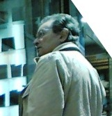 Eládio Clímaco, a portuguese television news anchor and voice actor.